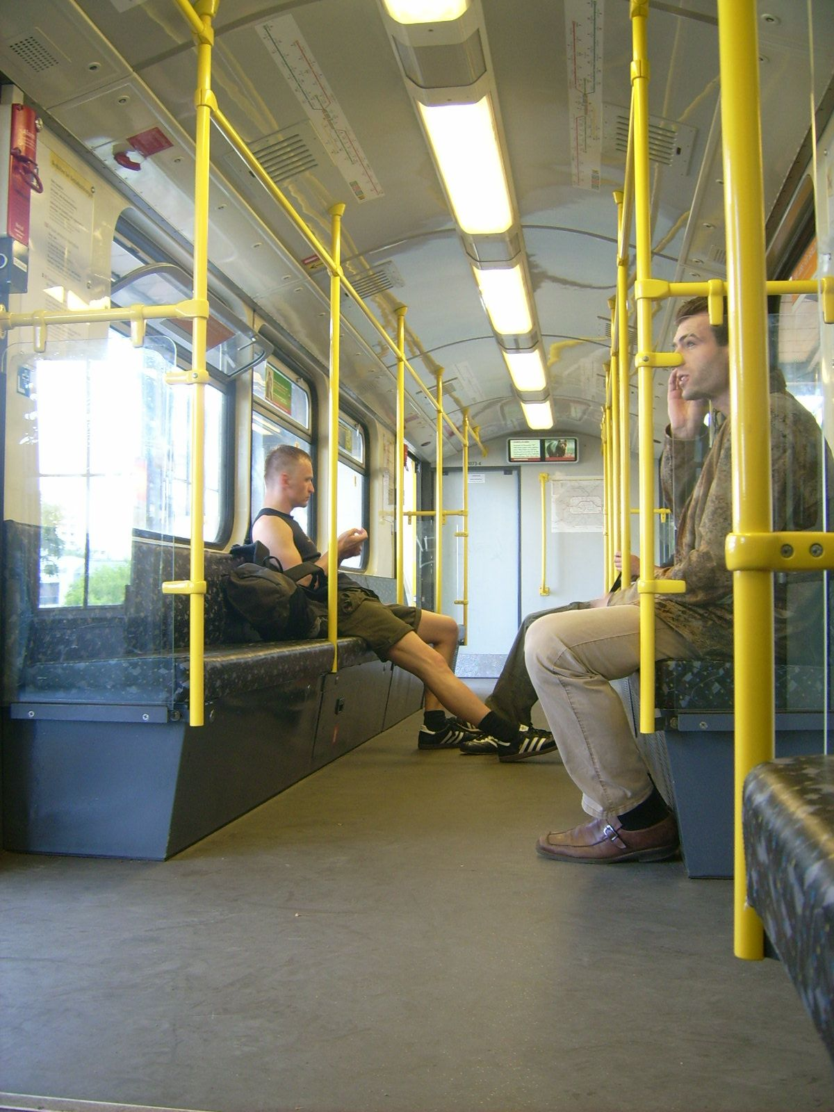 Interior of the Berlin U-Bahn train type GI/IE